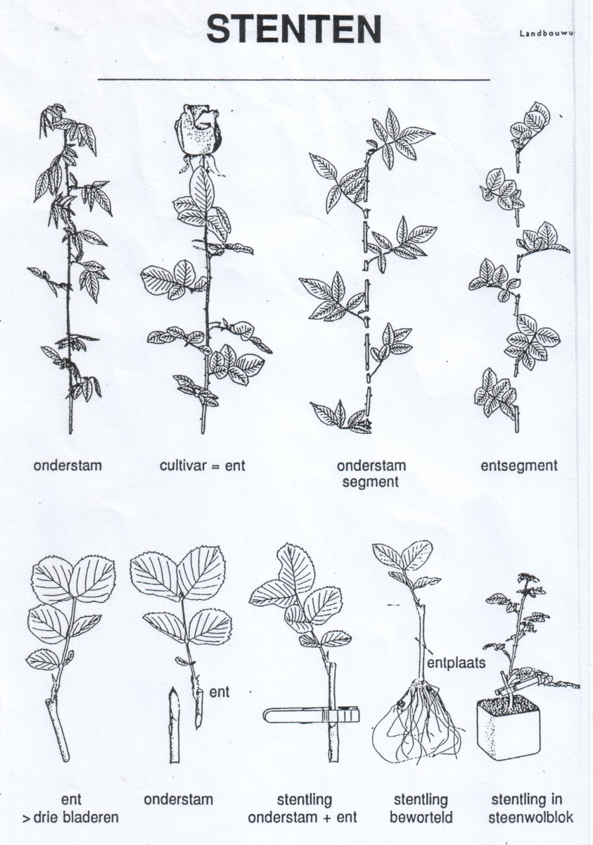 Stenting of roses